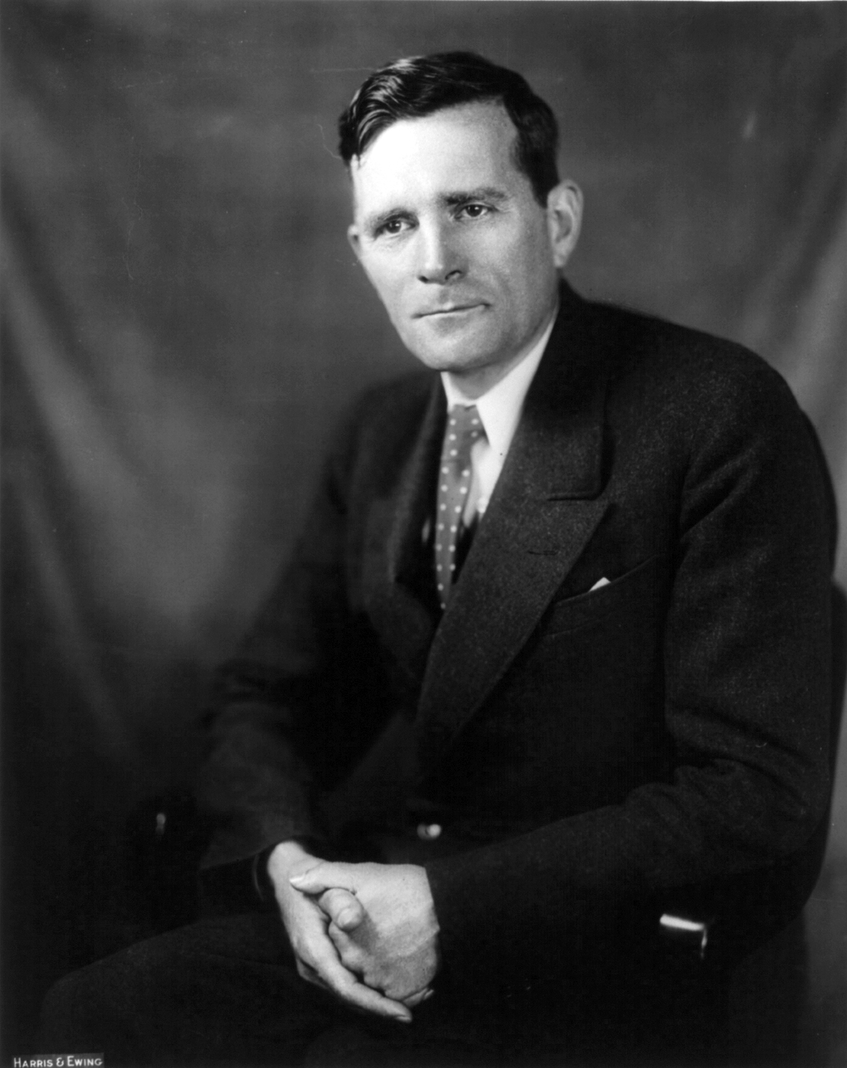 Aubrey Willis Williams, American social and civil rights activist. Head of the National Youth Administration during the New Deal.